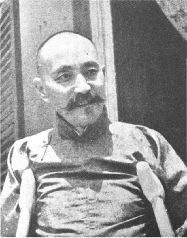 Republic of China Chinese muslim Daotai of Kashgar Ma Shaowu after an assasination attempt in October 1934.